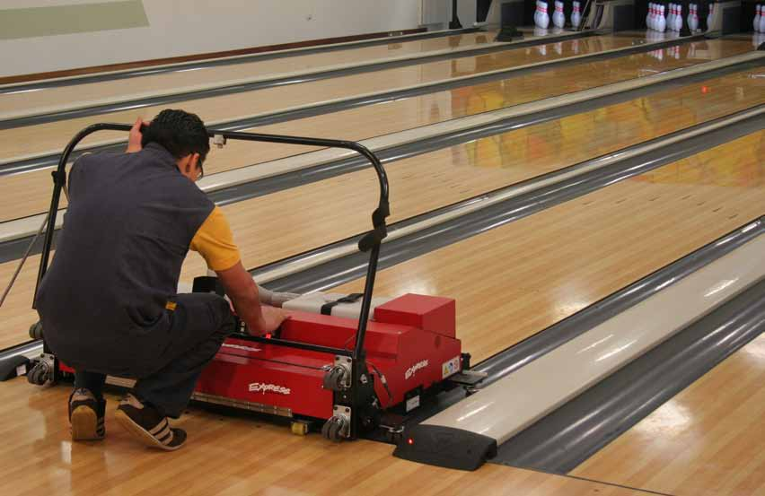 bowling